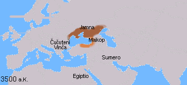 Original is part of the series 5500, 4500, 3500, 2500, 1500, 0500 BP.